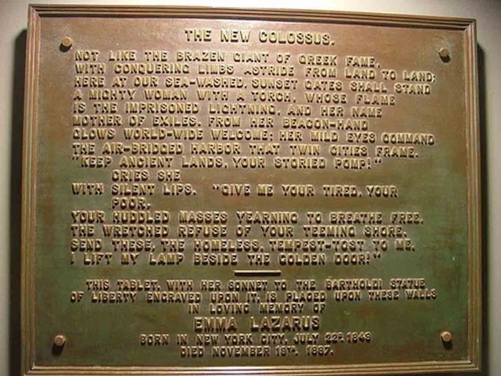 Plaque inside the base of the Statue of Liberty with the sonnet "The New Colossus" by Emma Lazarus. Plaque unveiled in 1903